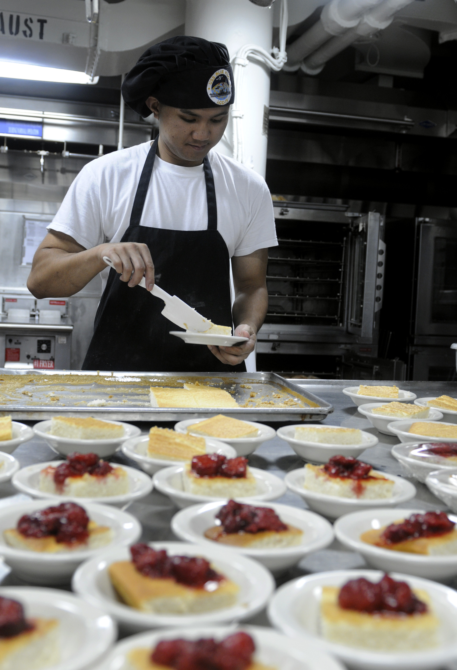 PACIFIC OCEAN (Sept. 28, 2009) Culinary Specialist 2nd Class Wiellard Guillermo, a baker assigned to the amphibious command ship USS Blue Ridge (LCC 19), prepares strawberry shortcakes in the ship's bake shop (U.S. Navy photo by Mass Communication Specialist 3rd Class Daniel Viramontes/Released)